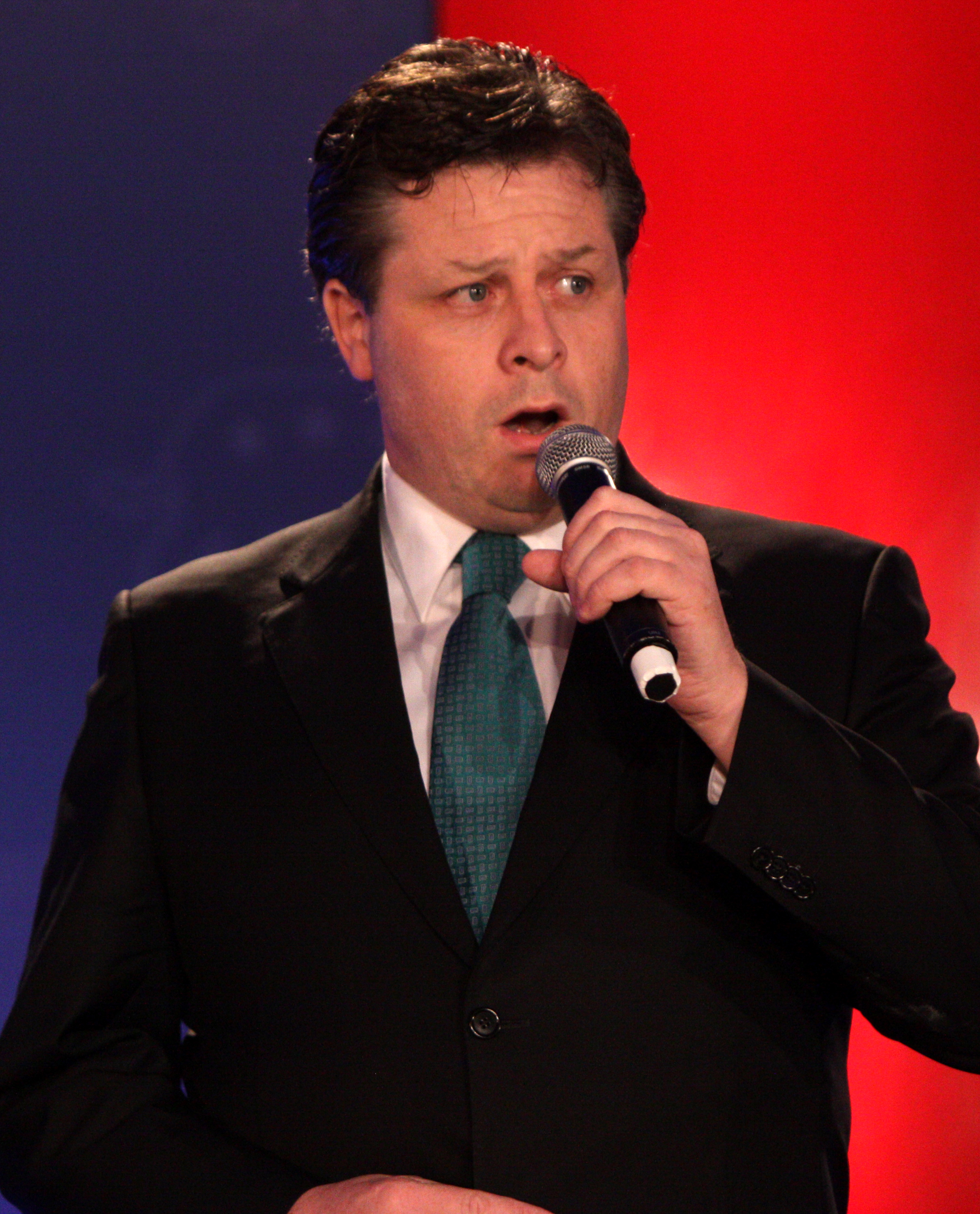 Anthony Kearns at the Republican Leadership Conference in New Orleans, Louisiana.